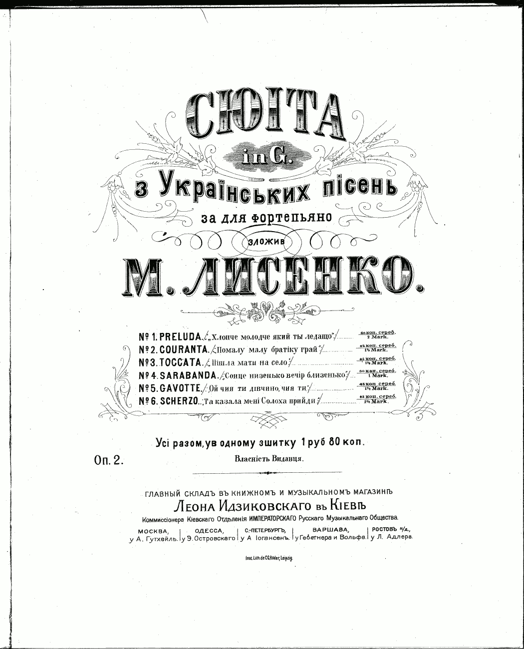 Title page of Lysenko's Ukrainian suite.